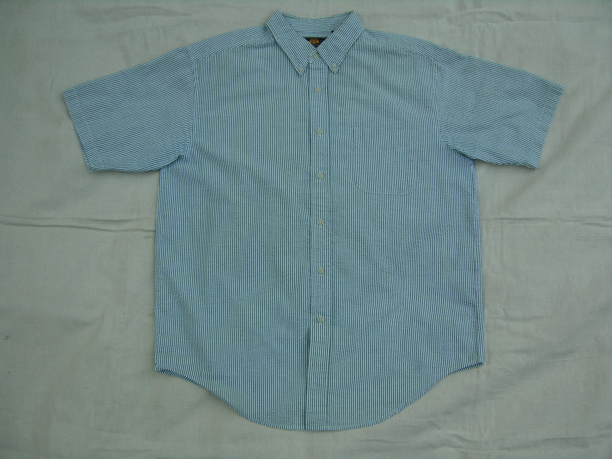 Image depicting a men's shirt made from green/white seersucker fabric.